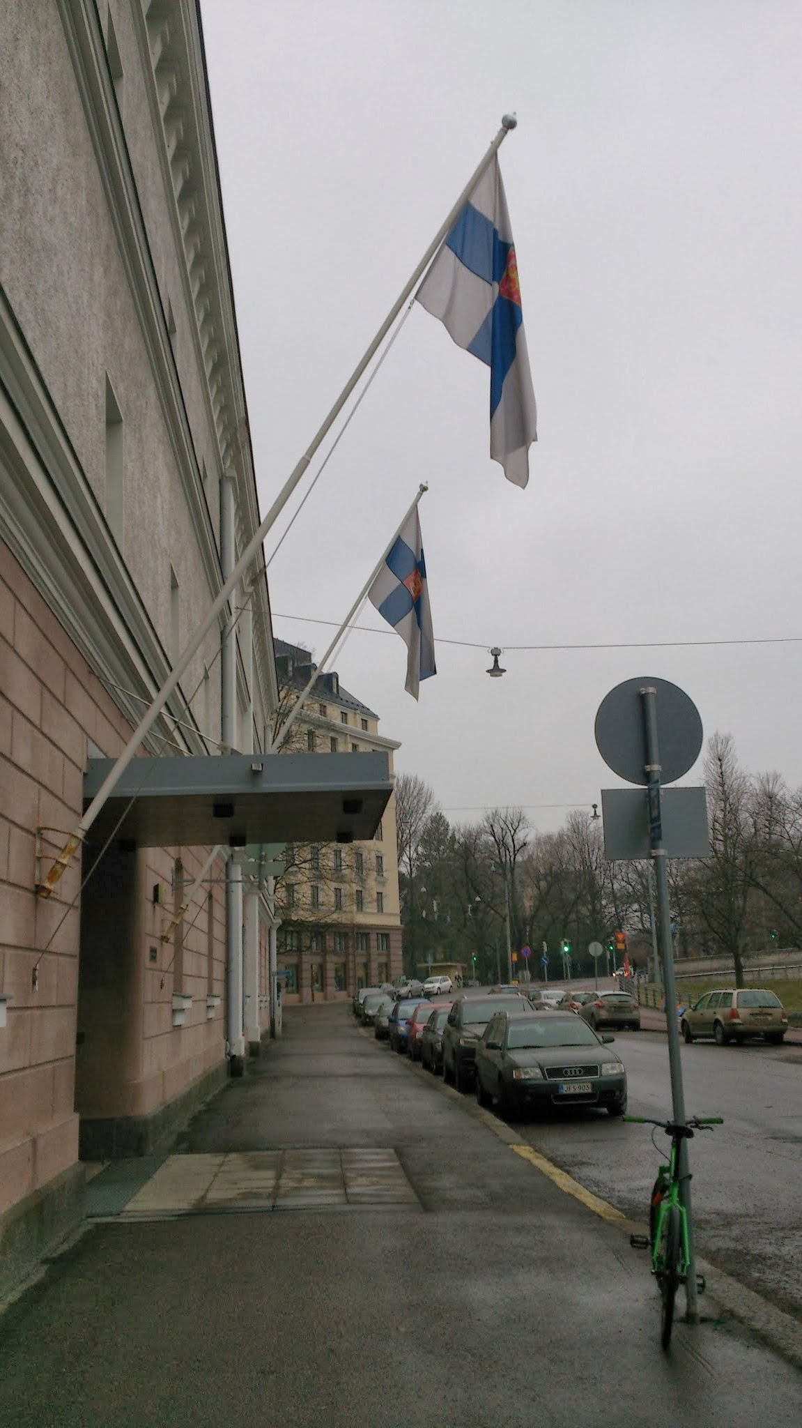 Finnish flags on Kalevala Day at Finnish National Archives building, Siltavuorenranta, Helsinki, FinlandEesti: Soome lipud Kalevala päeva puhul Helsingis, Soome Rahvusarhiivi hoonel, 28.02.2014.